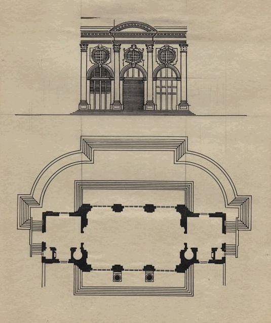 The Great Salon, 21m high garden gloriette of the Saxon Palace in Warsaw.